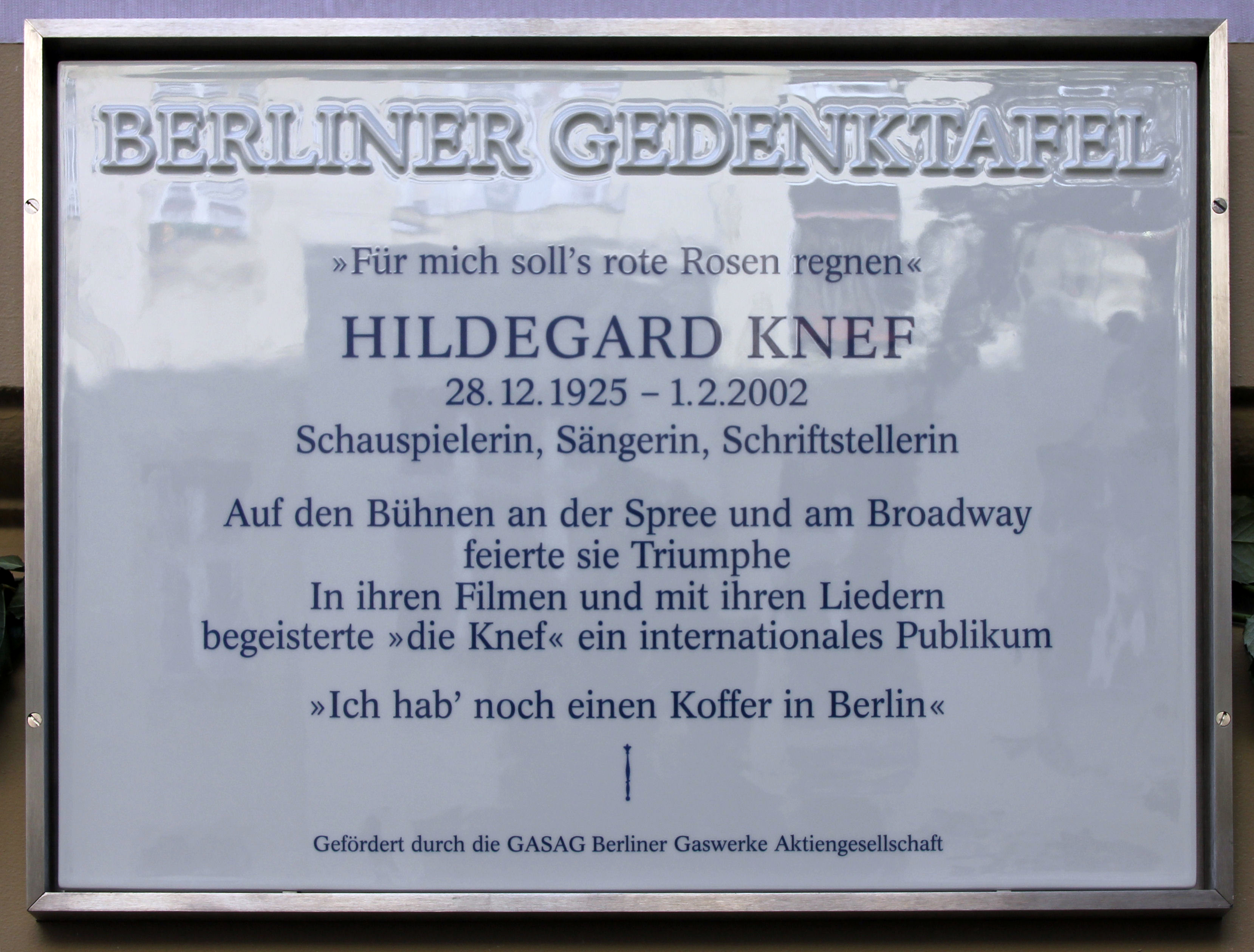 Berlin memorial plaque, Hildegard Knef, Leberstraße 33, Berlin-Schöneberg, Germany